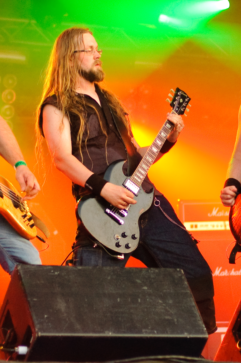 Guitarist Miitri Aaltonen performing with Kotiteollisuus at the Ilosaarirock festival in Joensuu, Finland.